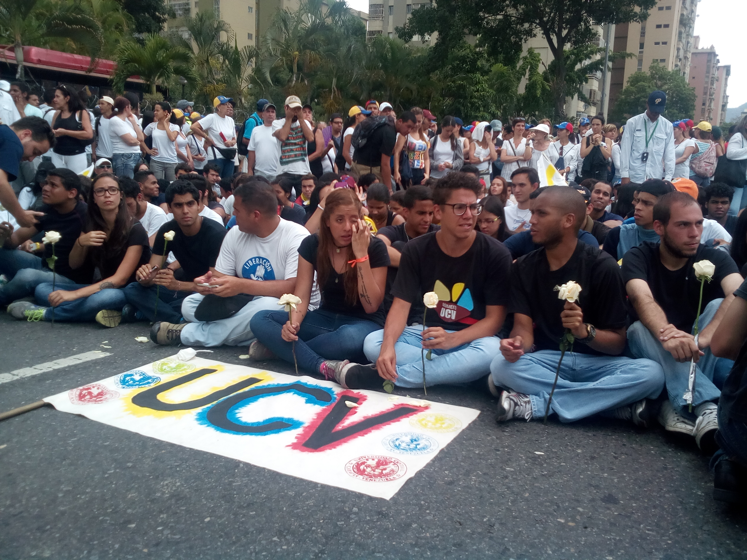 March of Silence in Venezuela, 22 April, 2017